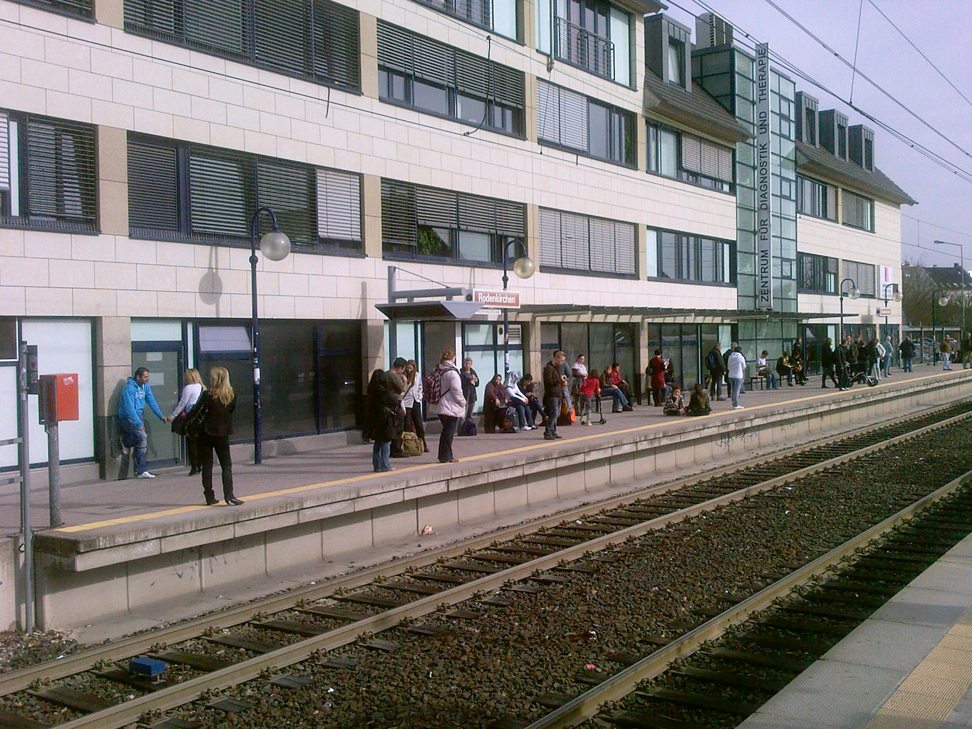 Bahnhof Köln-Rodenkirchen